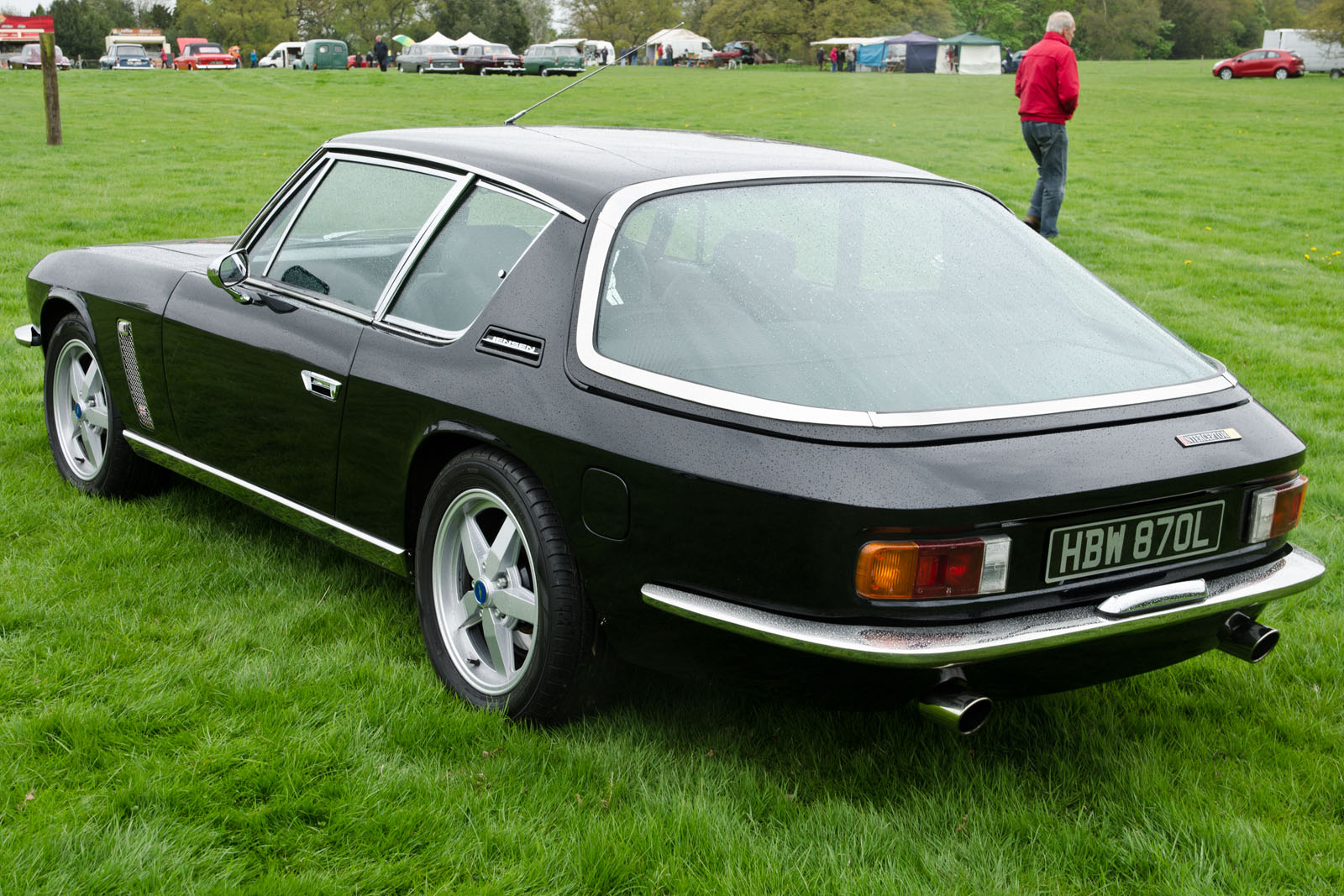 Vale Royal Classic Car Show at Arley Hall 12/05/2013